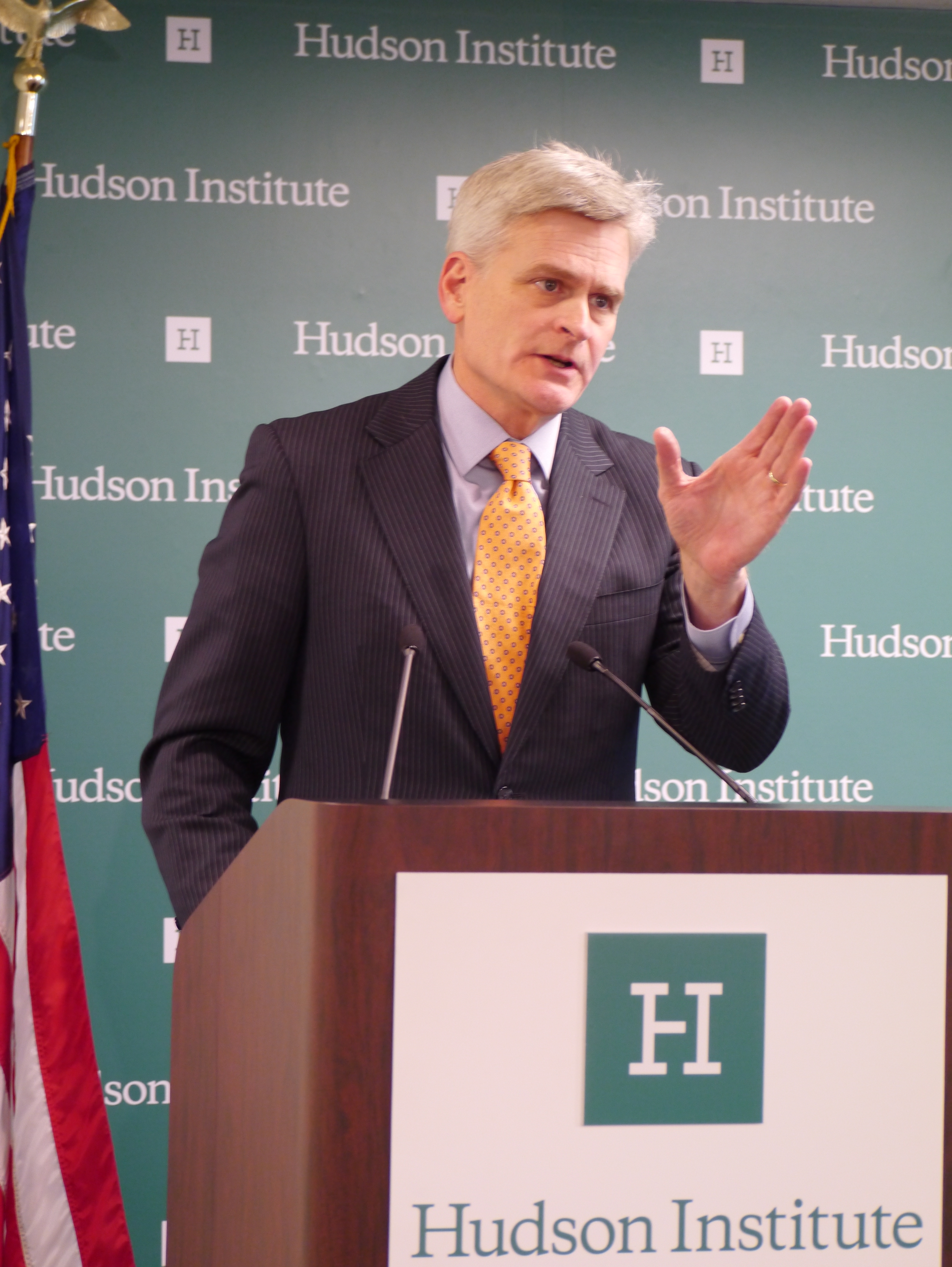 Senator Bill Cassidy, King v. Burwell: What Next for Obamacare? A Discussion with Louisiana Senator Bill Cassidy, M.D. at Hudson Institute